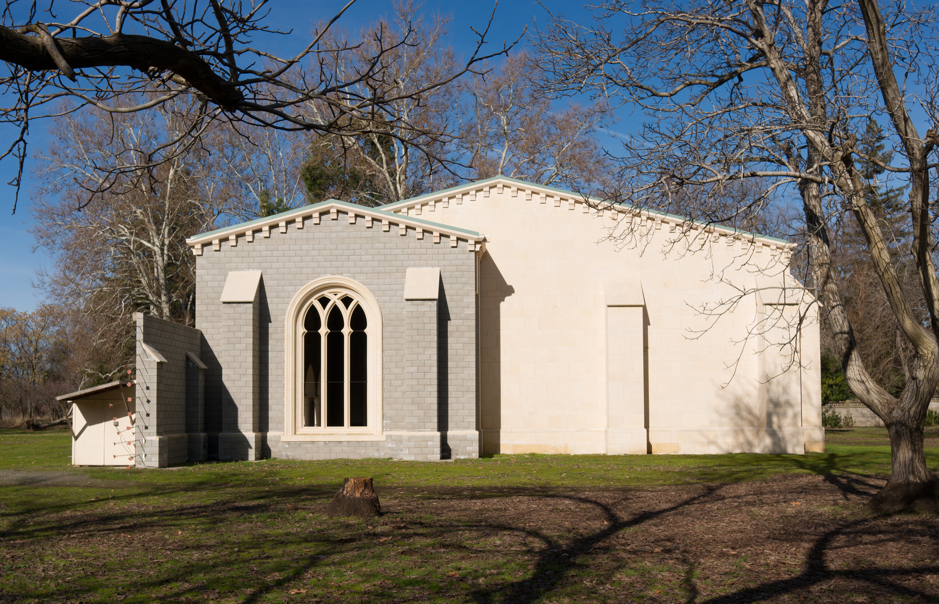 View of the Chapter House, Abbey of New Clairvaux, Vina, California, in January 2013